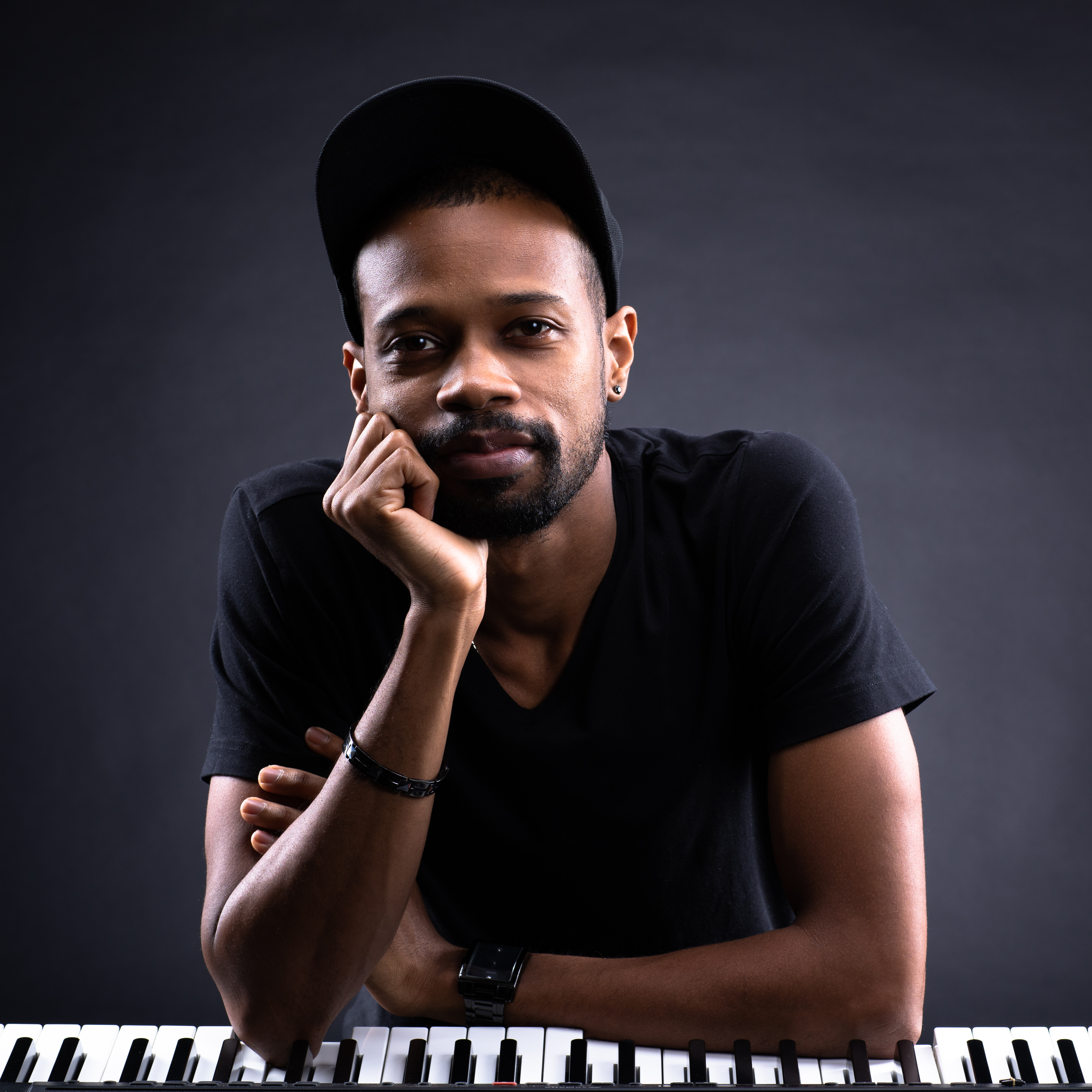 Jaime Hinckson in 2020